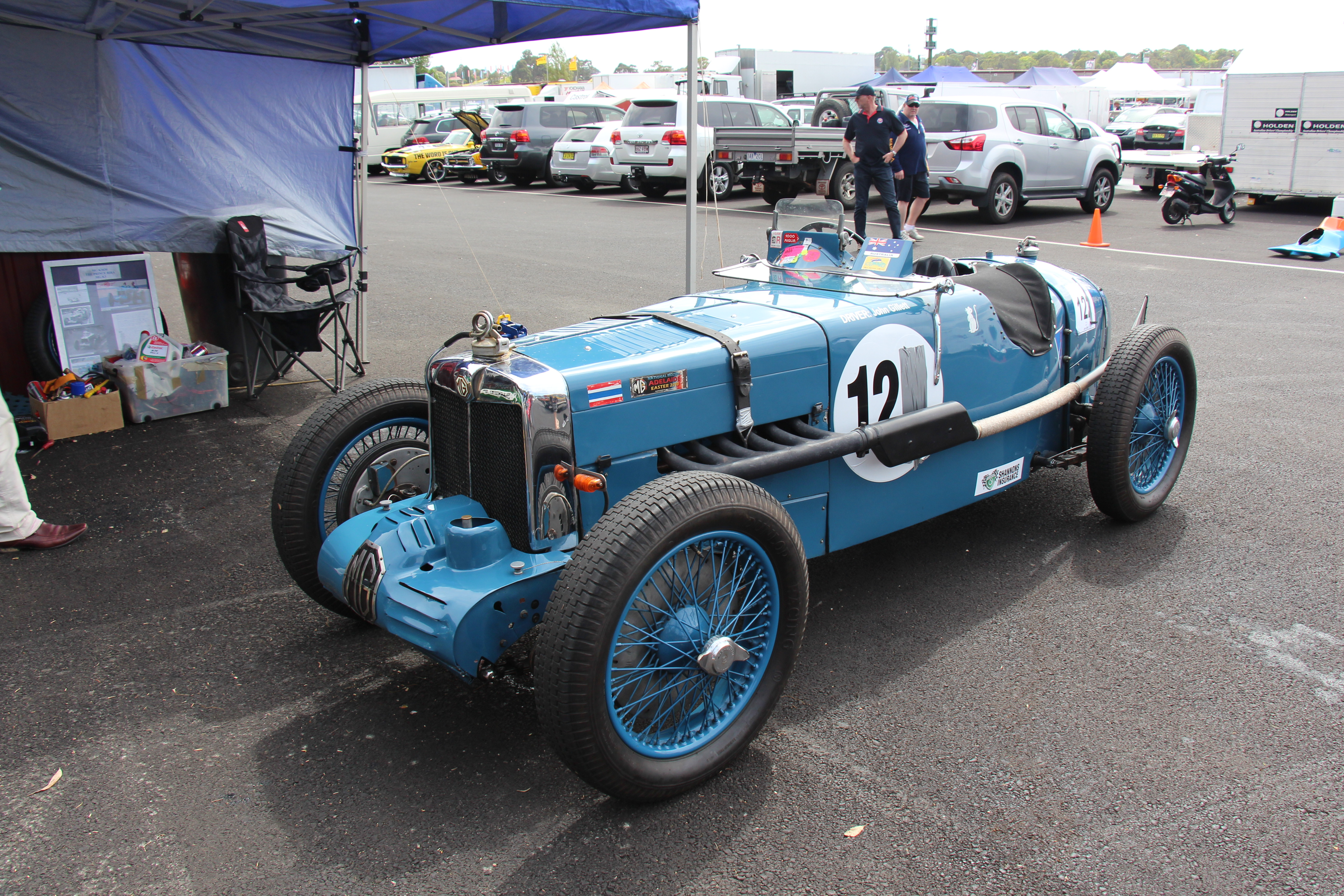 The K-type MG, replaced the F Type Magna, the improved K Type was built from 1932-34, it got a strengthened chassis and the track was increased by 6 inches. There were 3 versions; the K1 got a long chassis and was a 4 seater. the K2 got a shorter chassis and was a 2 seater. the K3 was a racing version on the shorter chassis and was fitted with a supercharger. Engine; 1271cc 6 cyl from the Wolseley